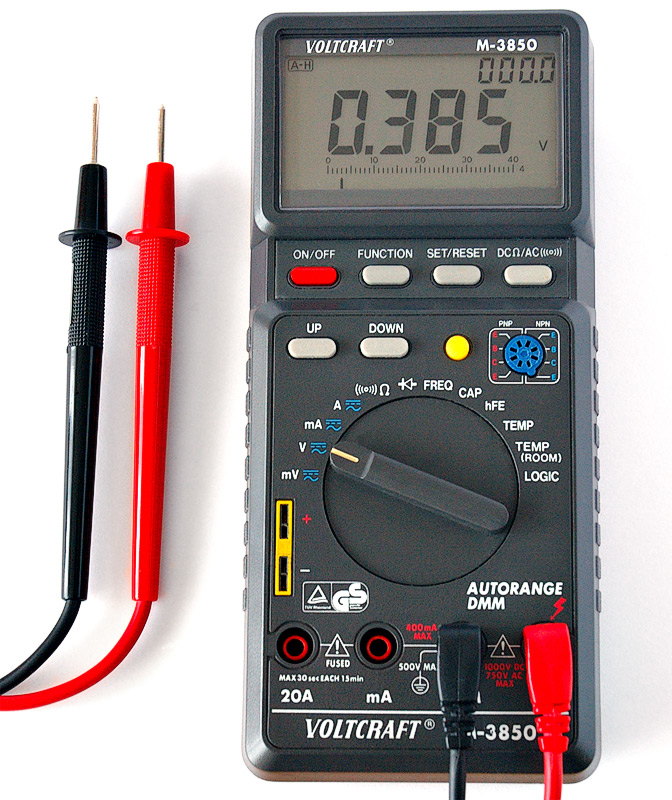 This image shows a digital multimeter.